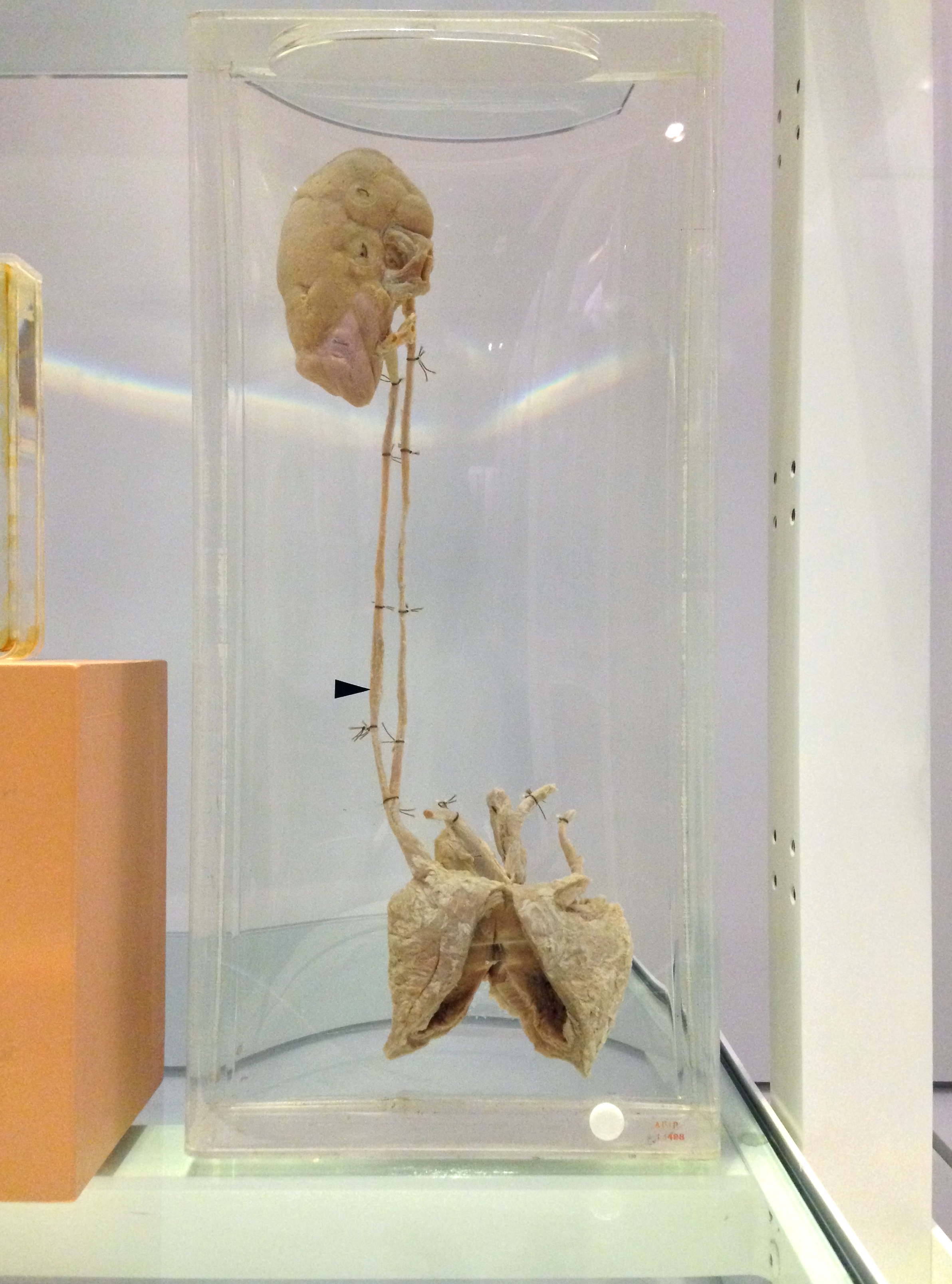 Duplicated ureters